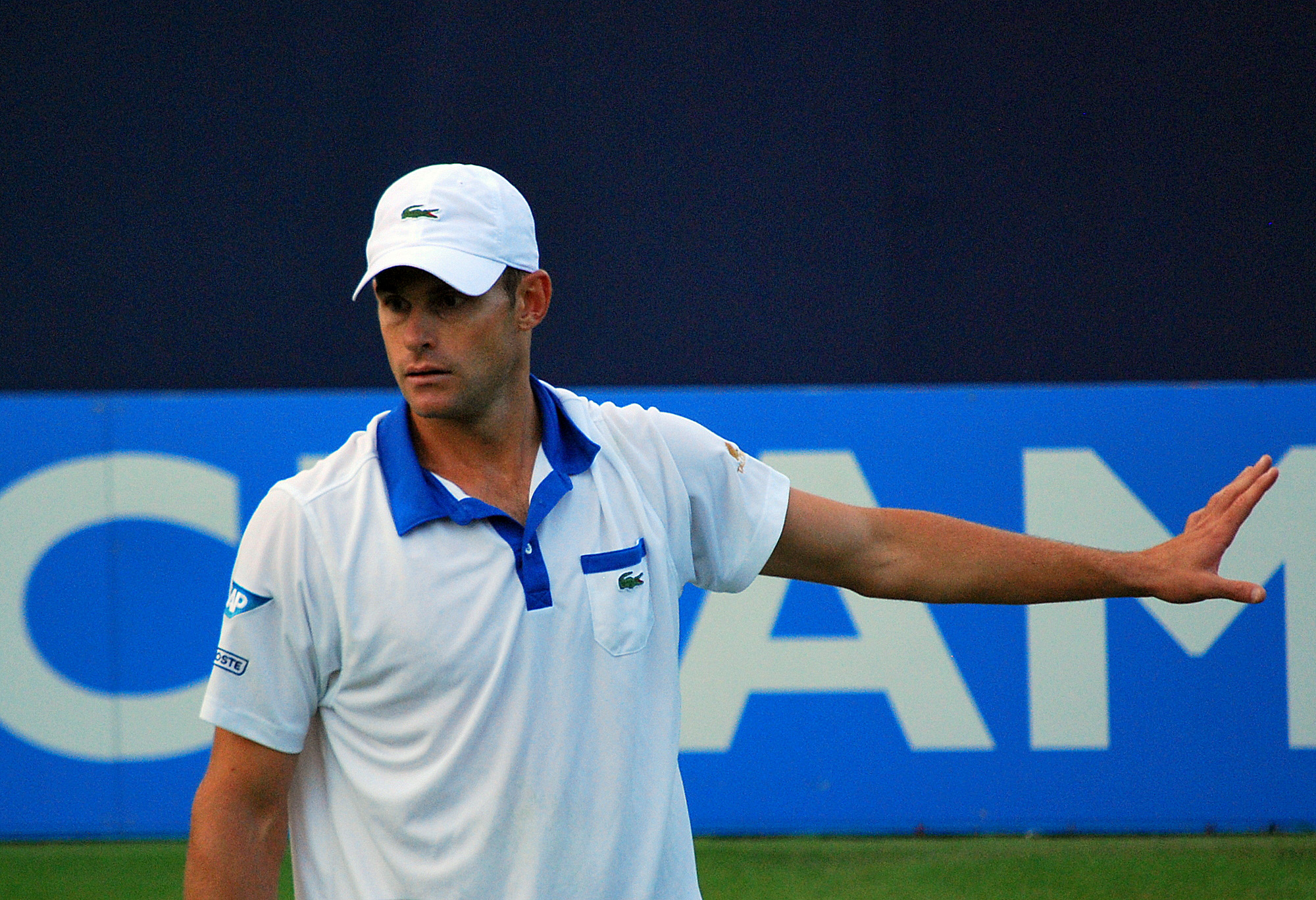 Andy Roddick at the Queen's Championships 2013